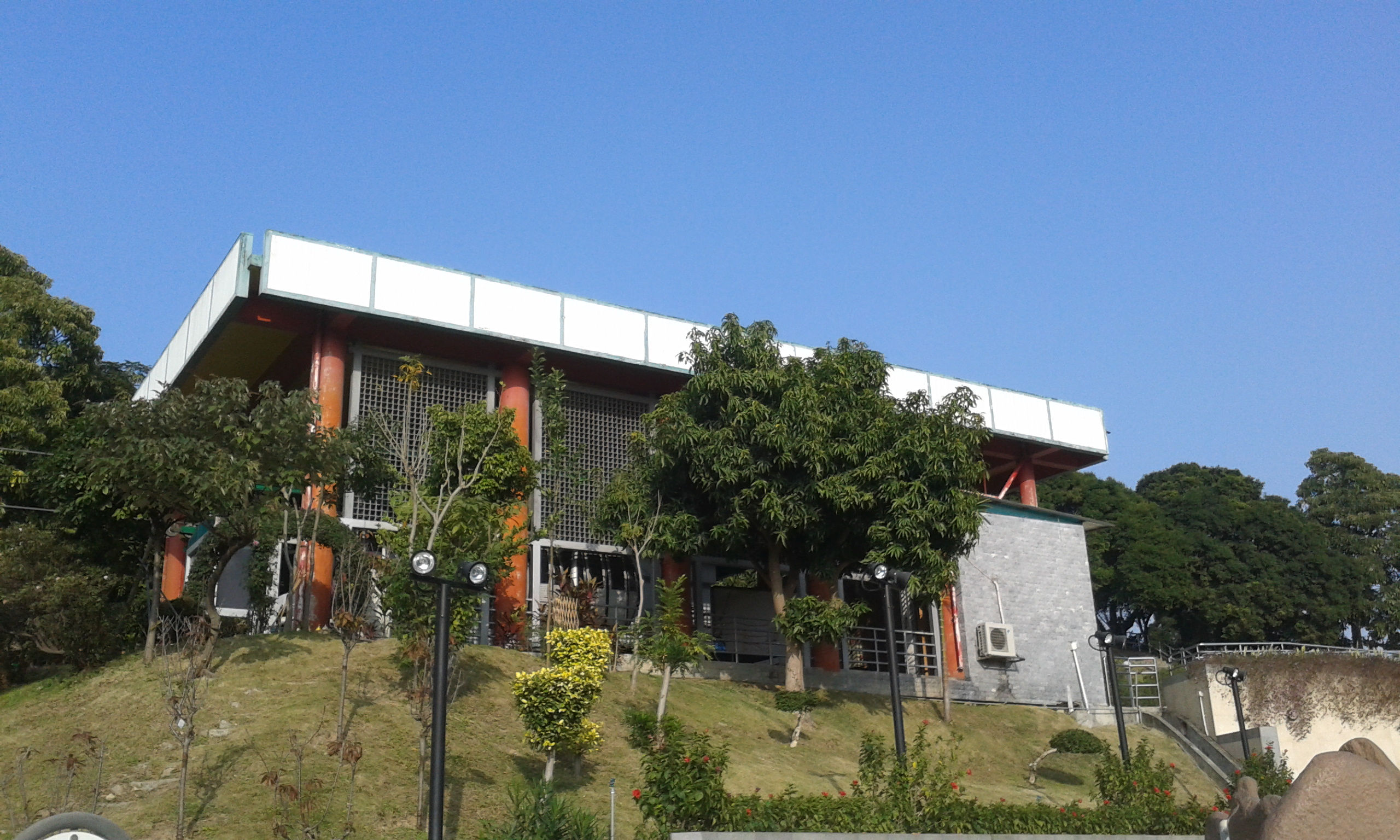 Cable Guia Station